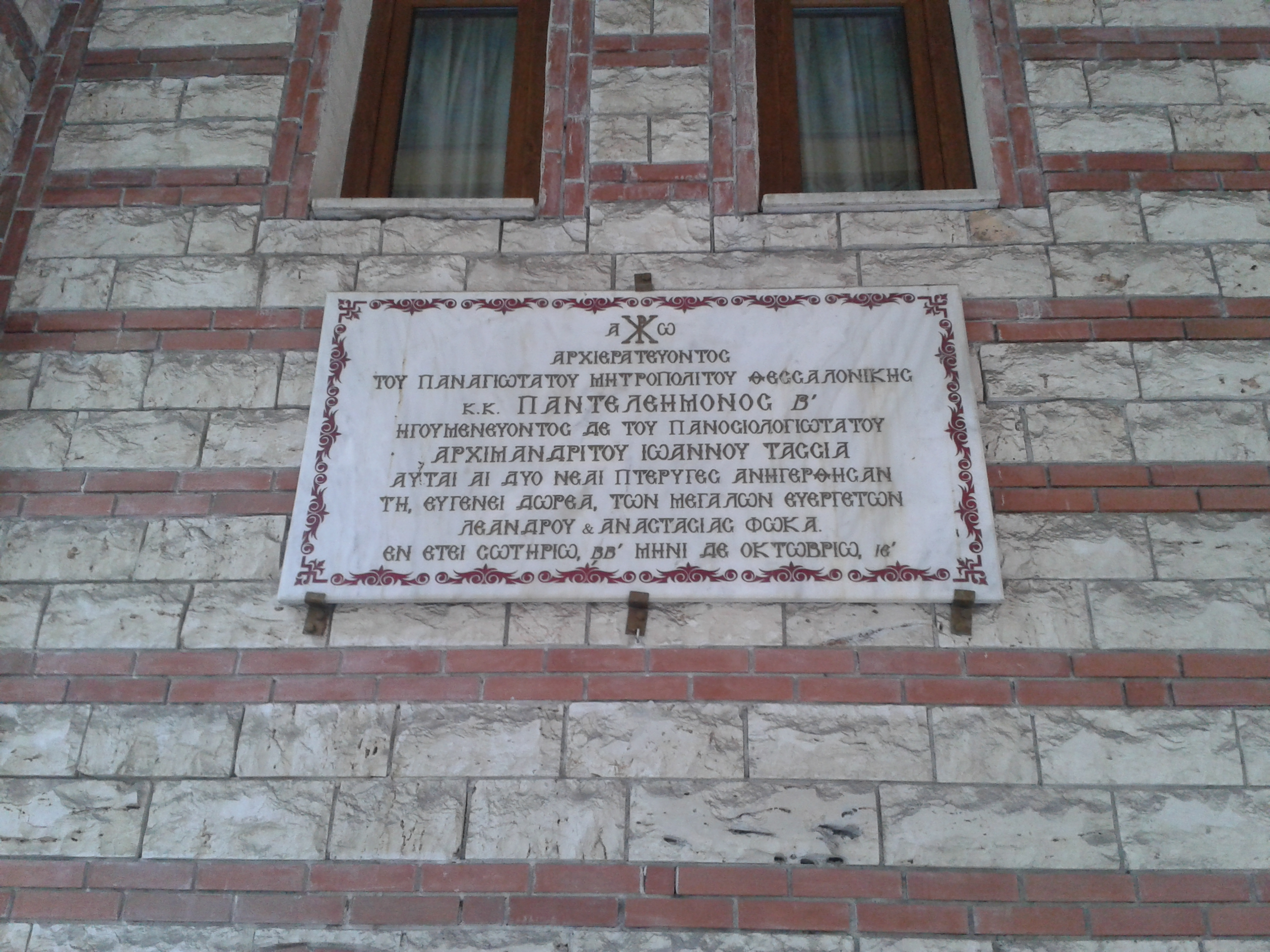 Saint Theodora Monastery in Thassaloniki